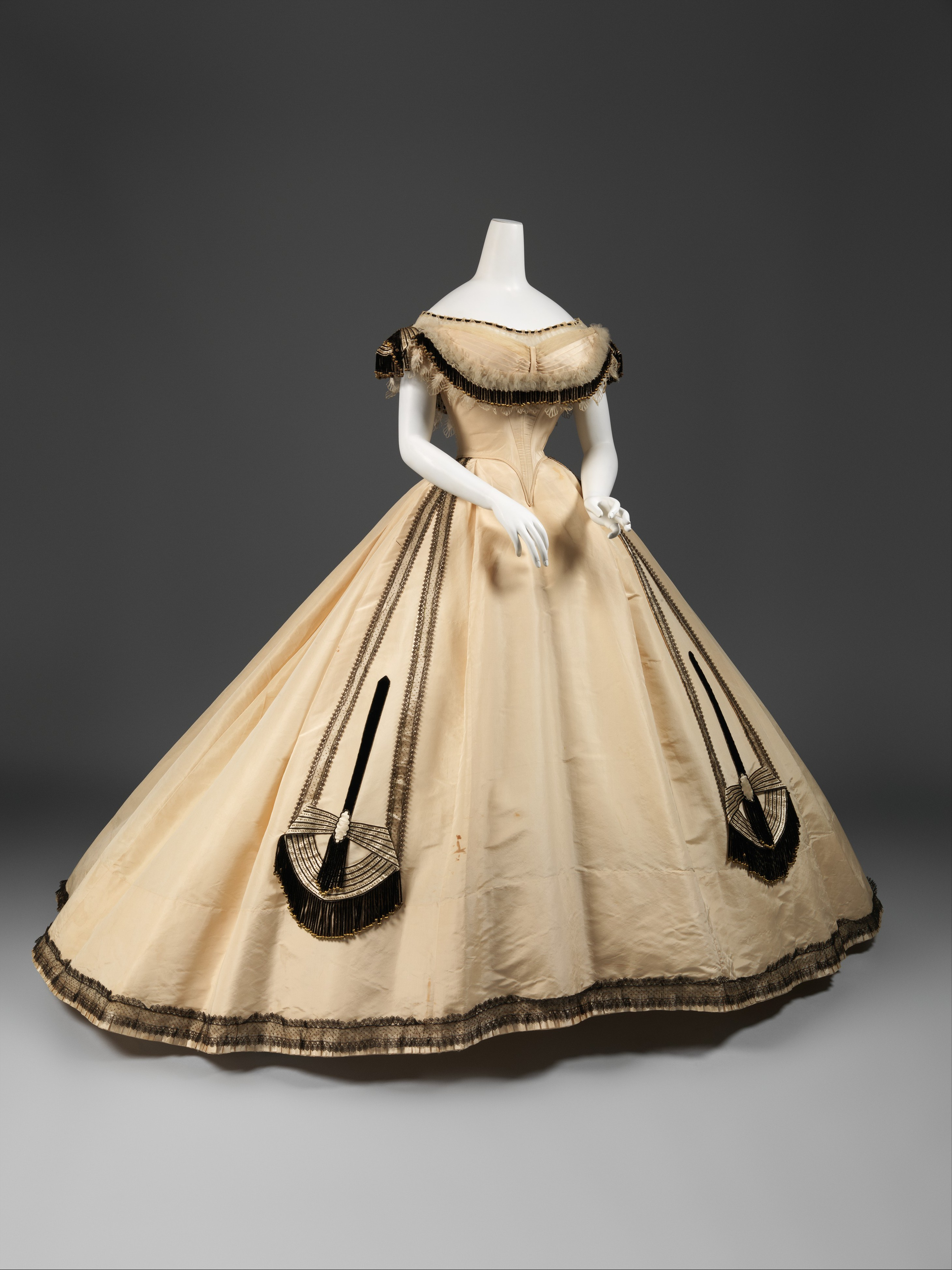 French; Ball gown